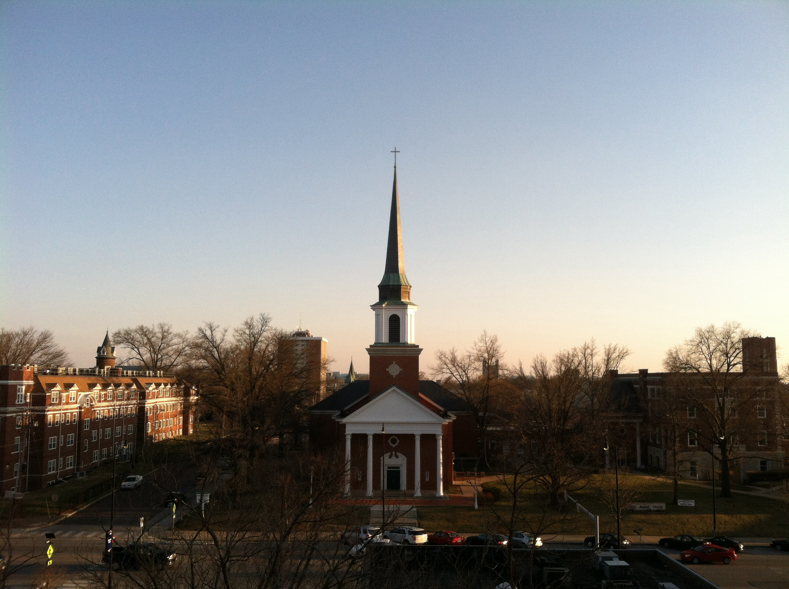 Stephens college, Waugh street, and first baptist church from the short street garage